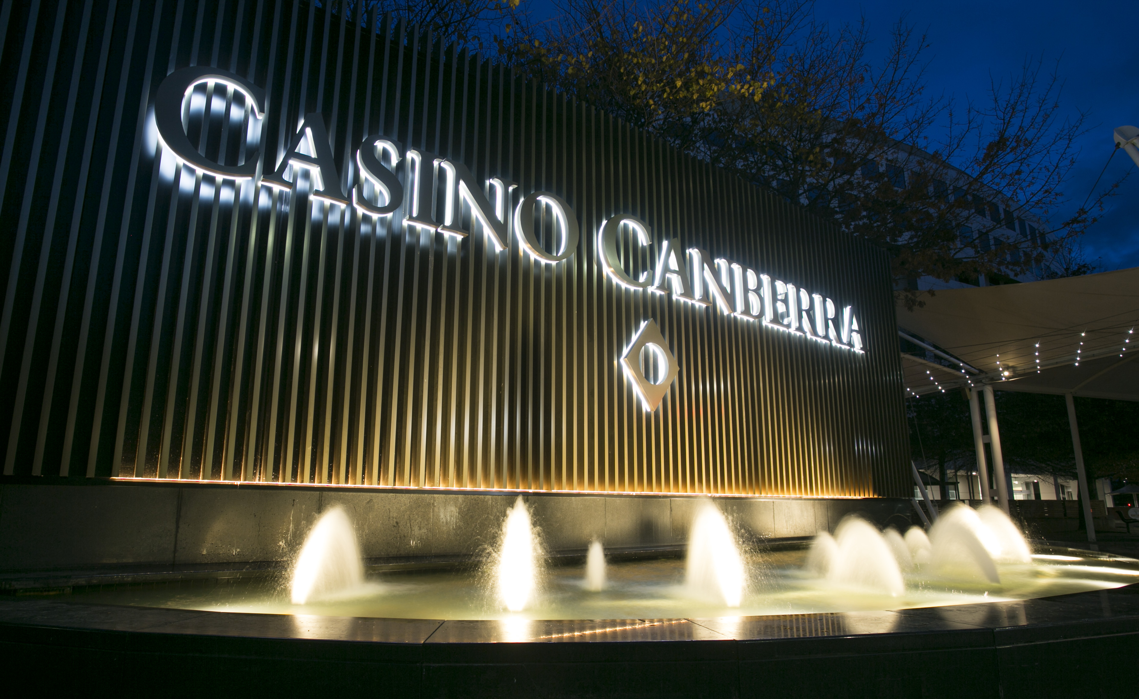 Casino Canberra Sign